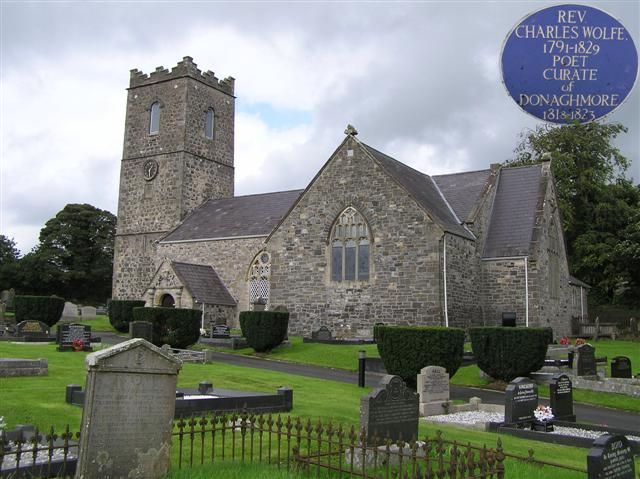 St Michael's Church of Ireland,Castlecaulfield. It is in the parish of Donaghmore. There is a plaque on the front boundary wall to the memory of Charles Wolfe, Poet and Curate of Donaghmore.